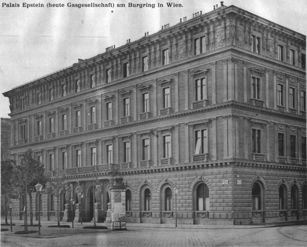 Palais Epstein